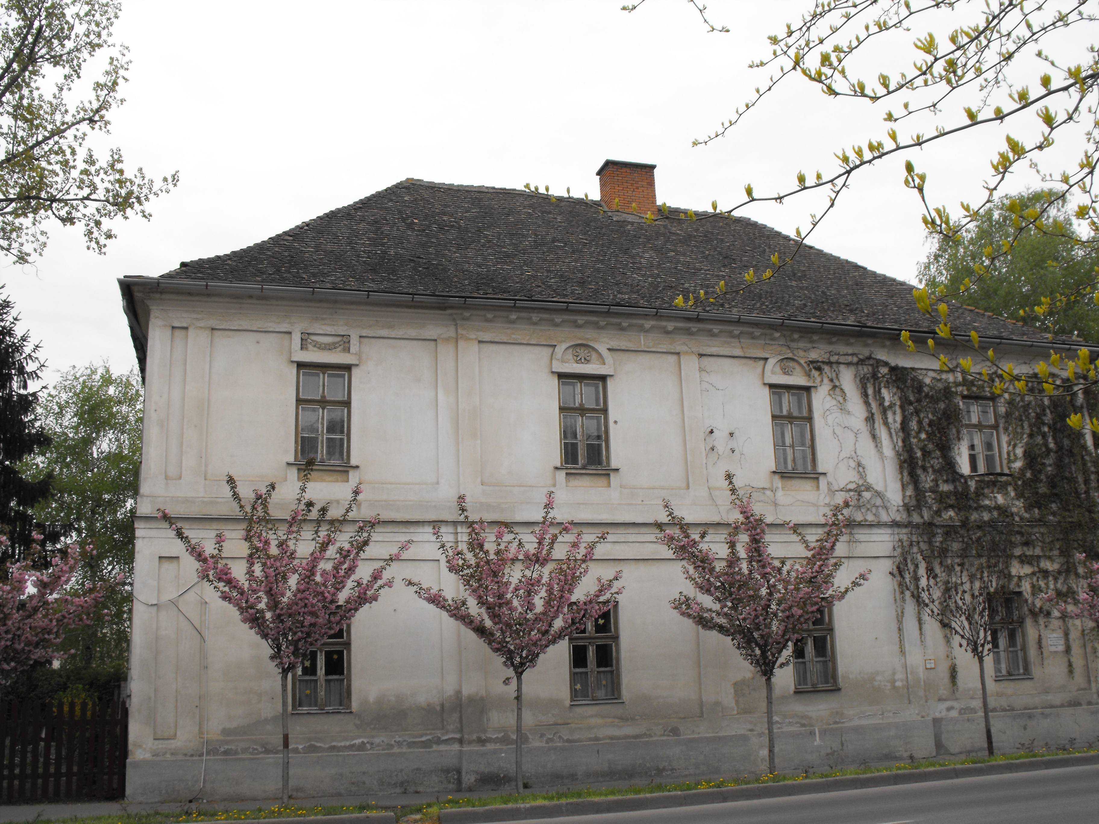 The Owl Castle, a scool in Makó, Hungary, built in 1820.